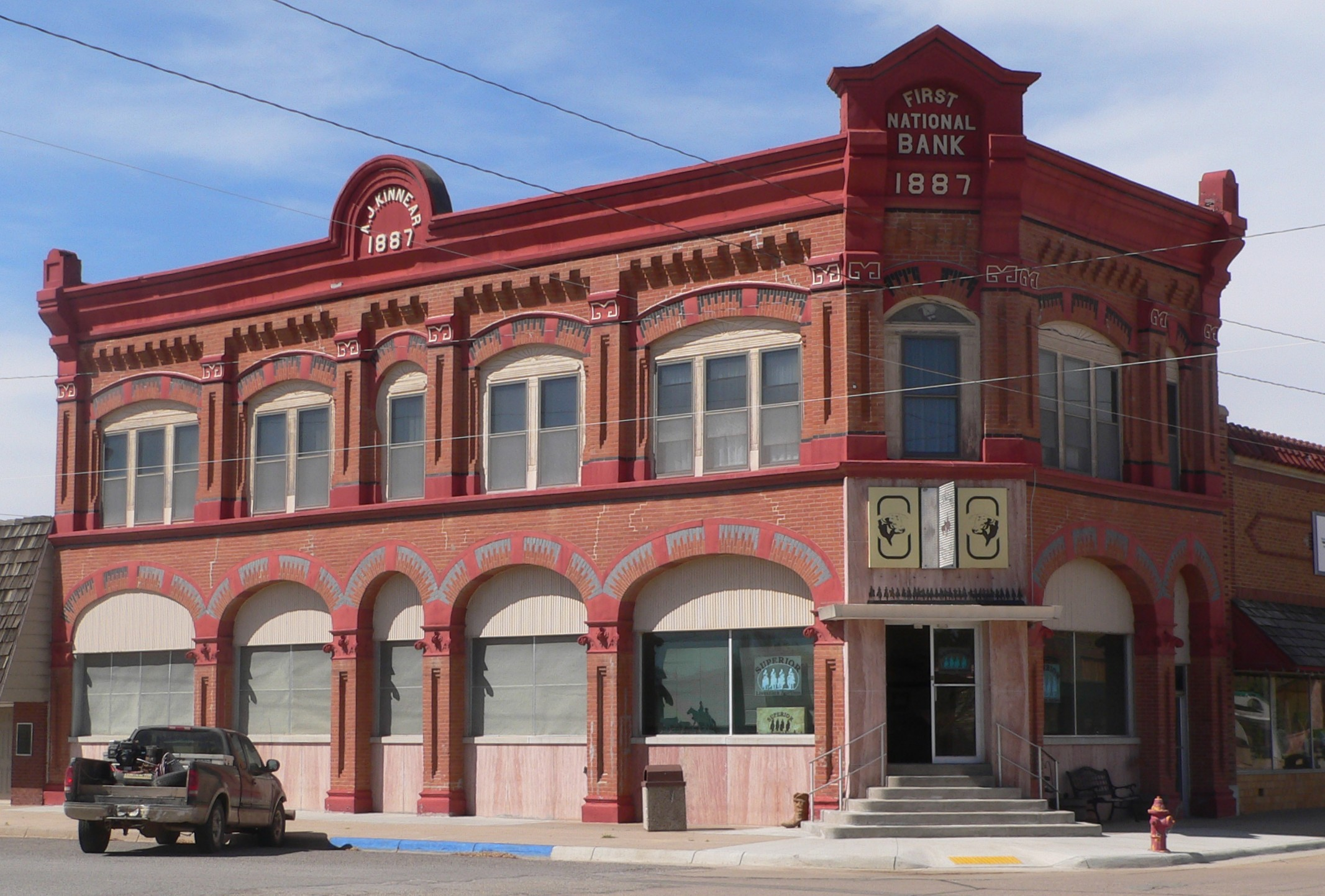 First National Bank building, located at northwest corner of 8th and Main in Ashland, Kansas; seen from the southeast.